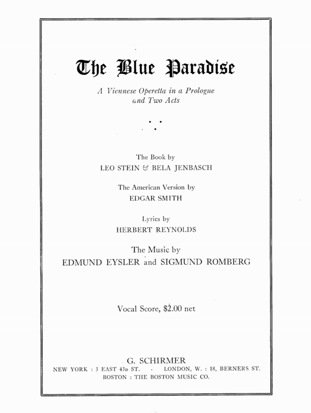 Cover of the vocal score for the musical "The Blue Paradise" (1915), with music by Edmund Eysler, Sigmund Romberg and Leo Edwards, and lyrics by Herbert Reynolds. Published by G. Schirmer Inc.